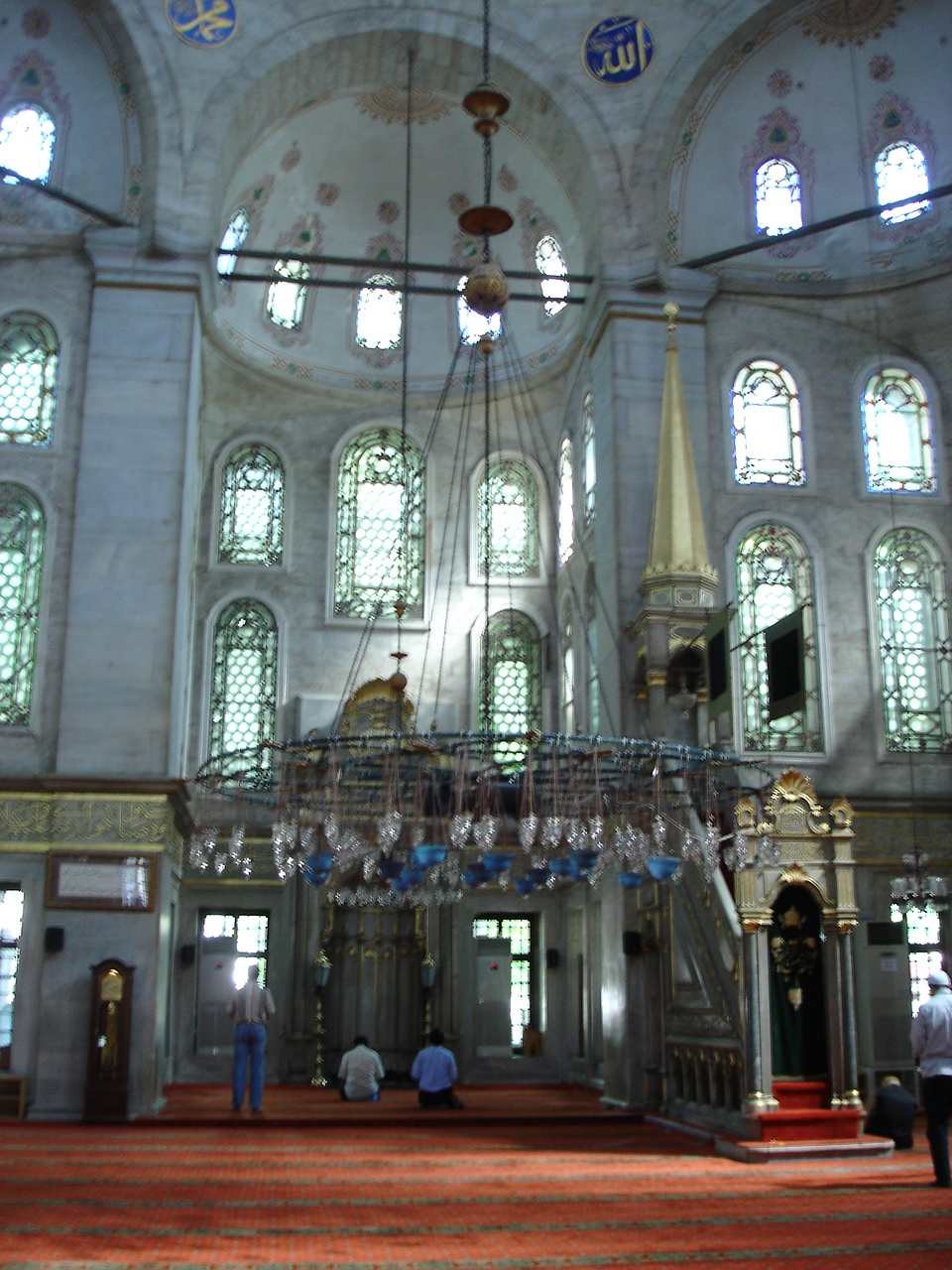 Istanbul - Inside view, with sight of mihrab and minbar, of the mosque in Eyüp. Picture by: Giovanni Dall'Orto, May 30 2006.